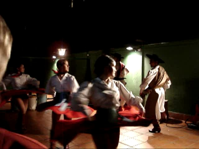 Folklore dance: Gato. Argentina. Gaucho.